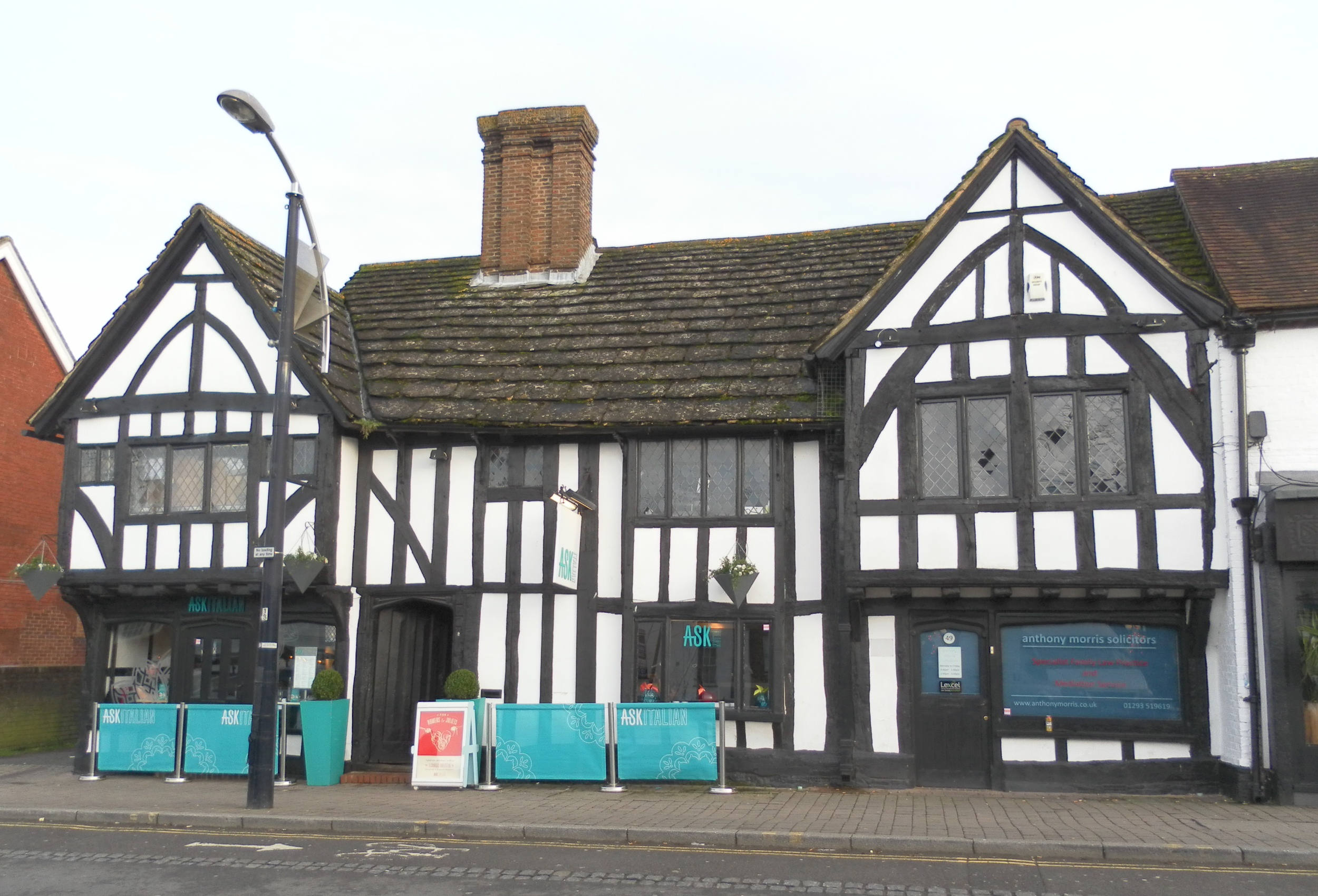 Ancient Priors, High Street, Crawley, West Sussex, England. A 15th-century timber-framed hall-house; now a restaurant. Listed at Grade II* by English Heritage (IoE Code 363347)